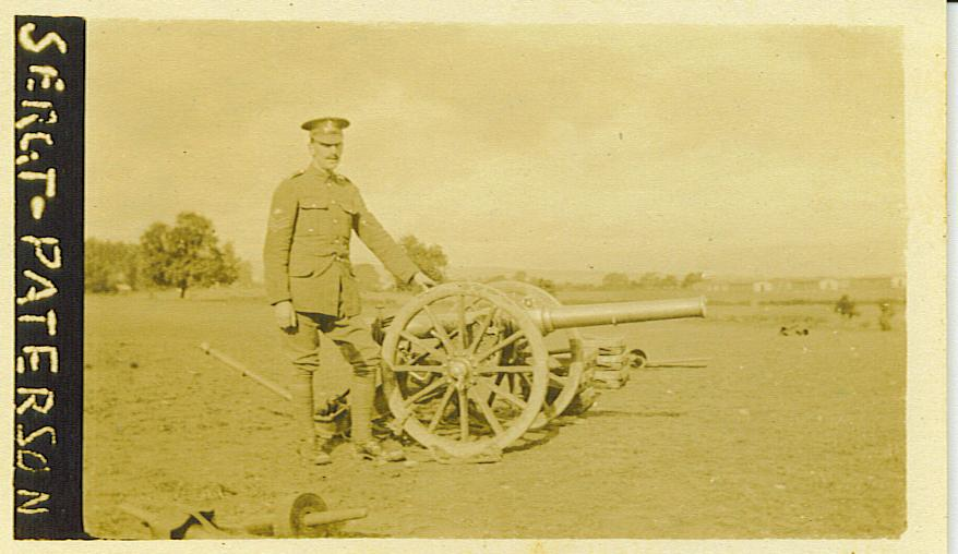 Postcard showing Sergt Paterson, 4th (Highland) Mountain Brigade, with a 10 pounder mountain gun